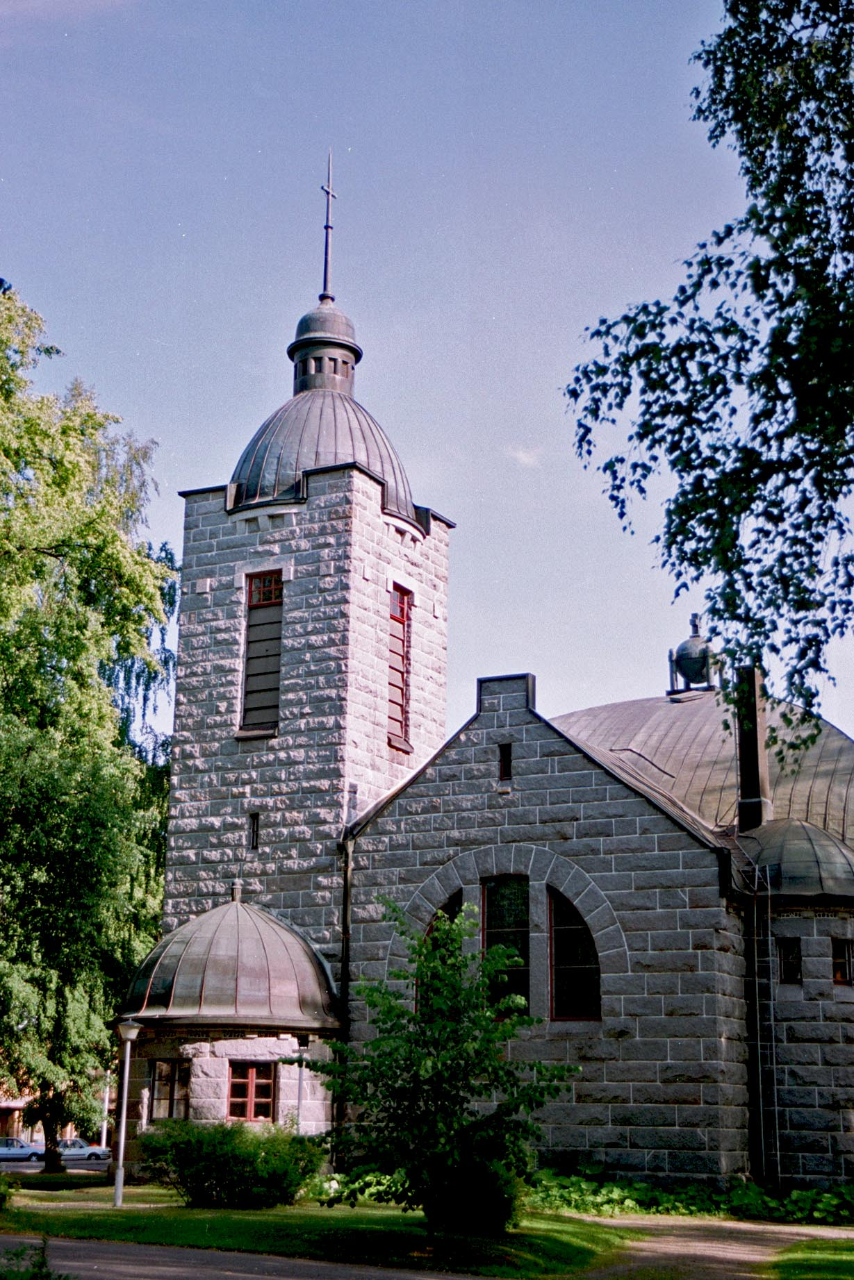 Lutheran Church in Hartola, Finland, by Josef Stenbäck. Made of grey granit, representing Finnish Art Nouveau and National Romanticism of early 20th century.